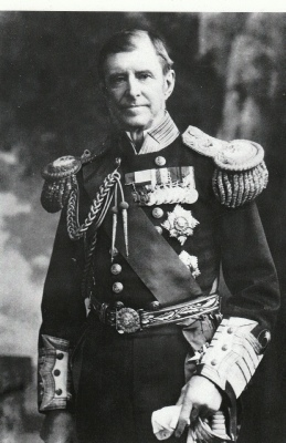 photo of John Edmund Commerell